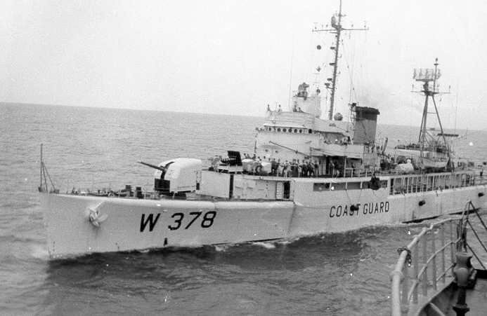 United States Coast Guard cutter USCGC Half Moon (WHEC-378), cnducting underway replenishment operations off Vietnam in 1967.